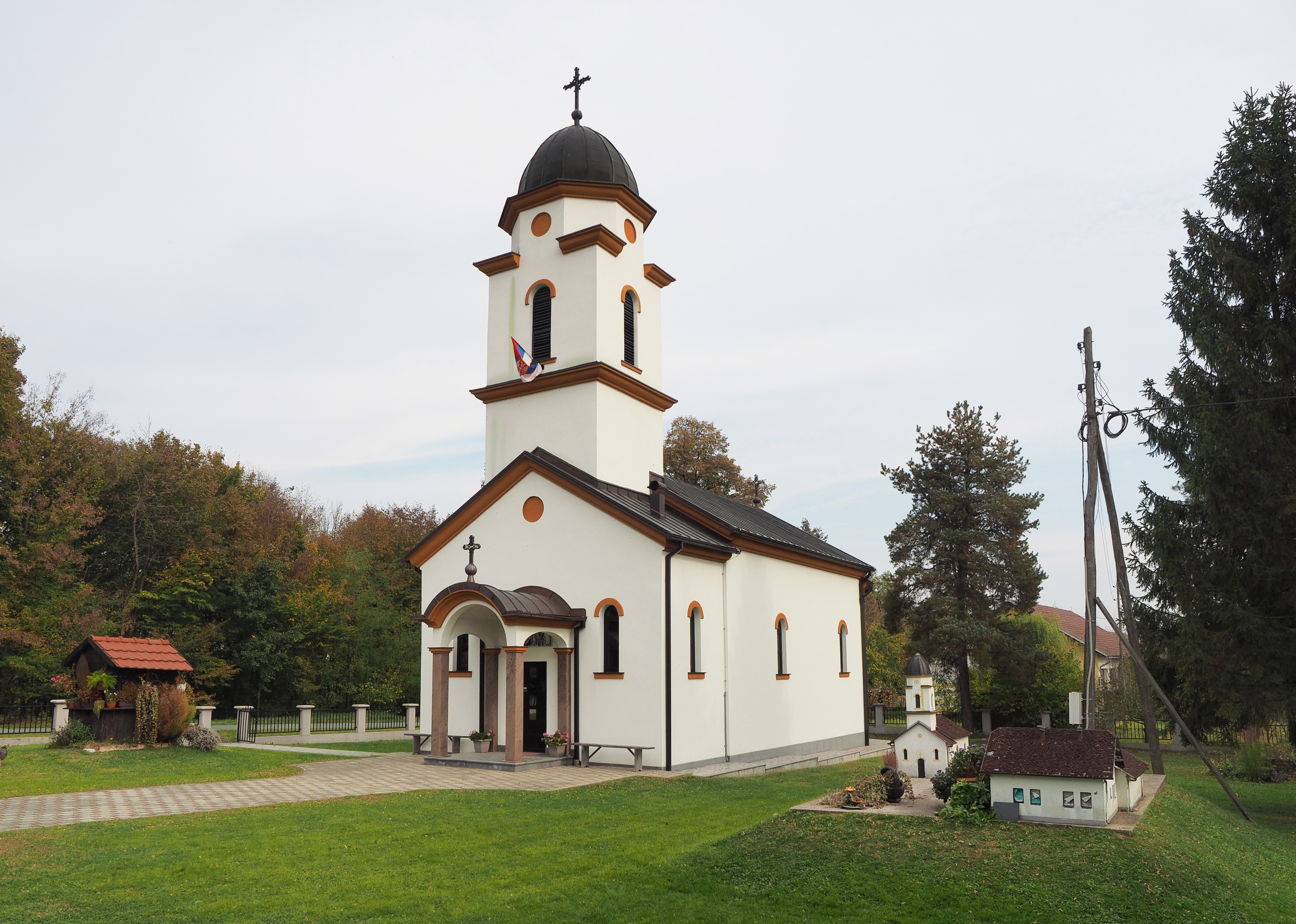 Serbian Orthodox Church in Bistrica (Gradiška), Republic of Srpska Srpski (latinica): Crkva Uspenja Presvete Bogorodice (Bistrica, Gradiška, RS)